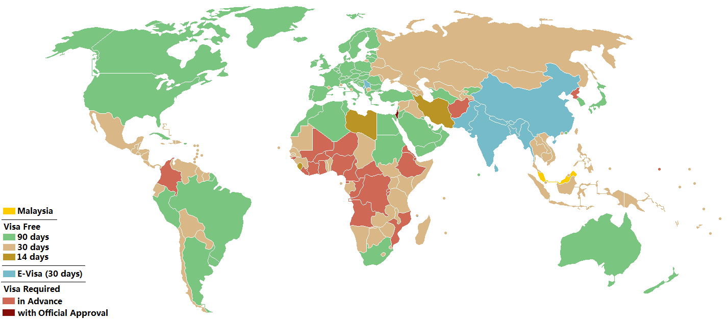 Visa policy of Malaysia Malaysia Visa-free (90 days) Visa-free (30 days) Visa-free (14 days) E-Visa (30 days) Visa required in advance Visa issued with an official approval only